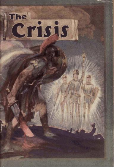 Page de Garde de la brochure de 1933 "La Crise" éditée par les Témoins de Jéhovah